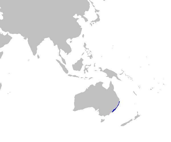 Distribution map for Brachaelurus waddi